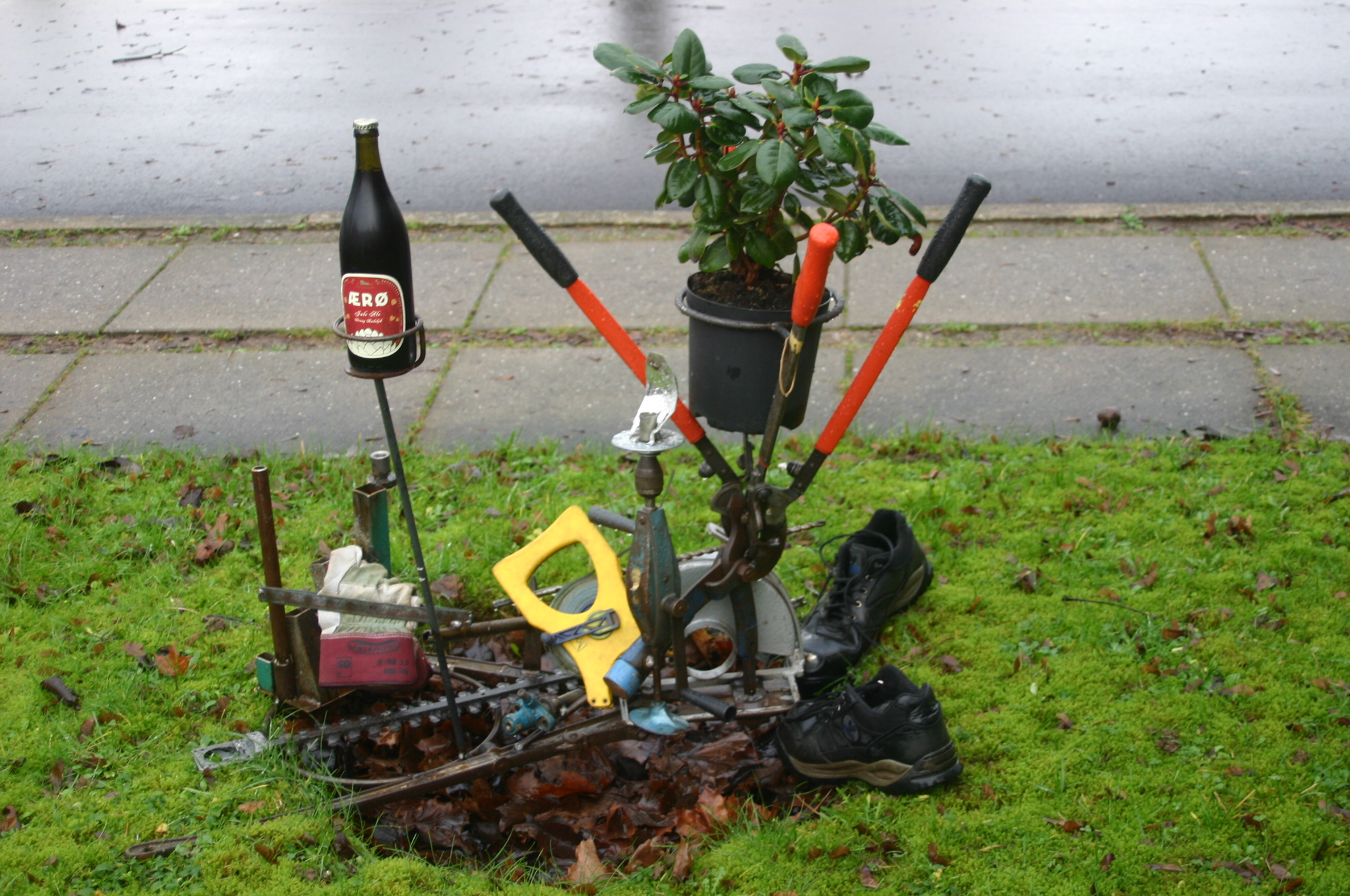 Different gardener's tools welded together. A deconstrutivist collage?